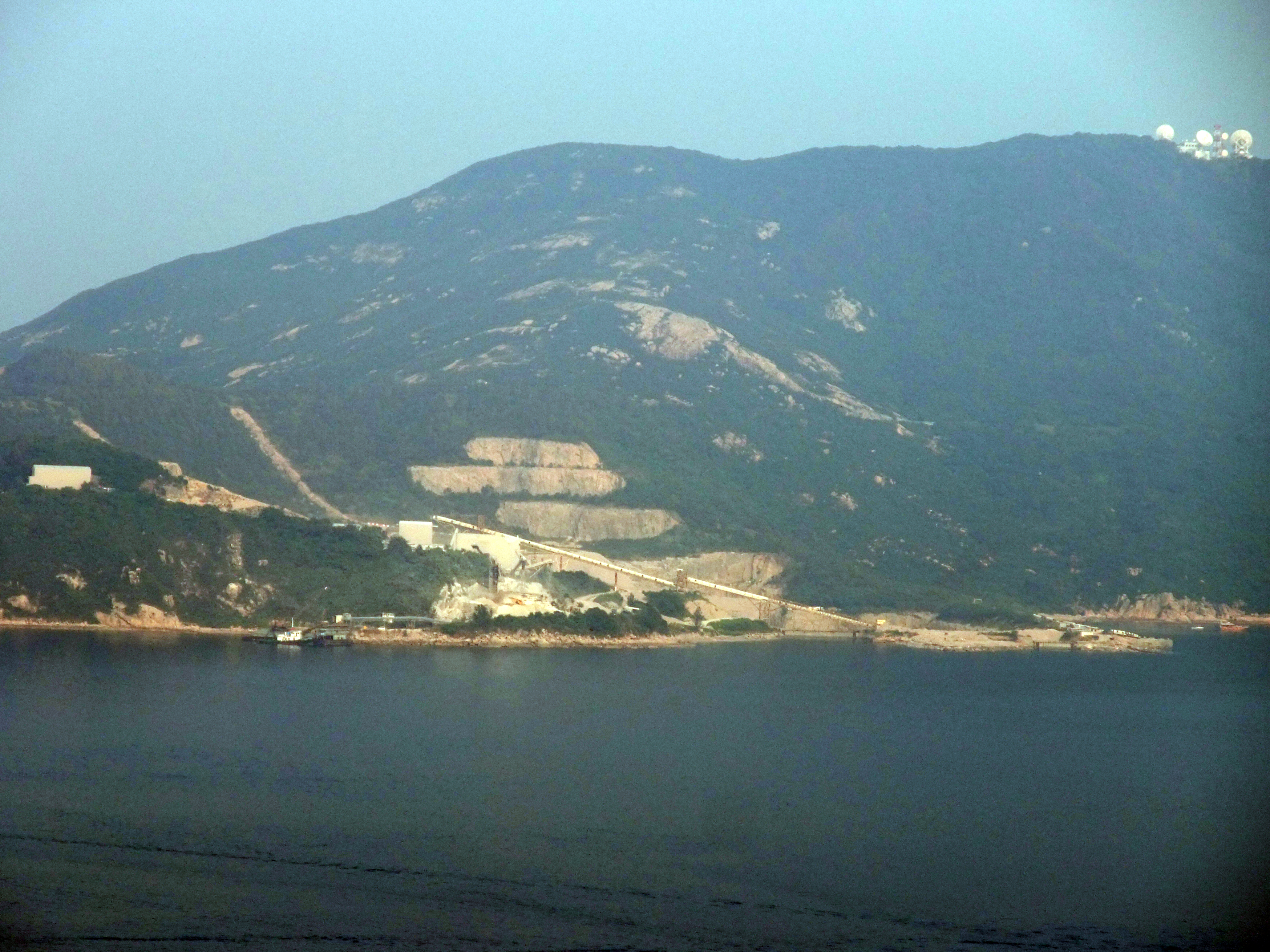 Photo of Shek O Quarry